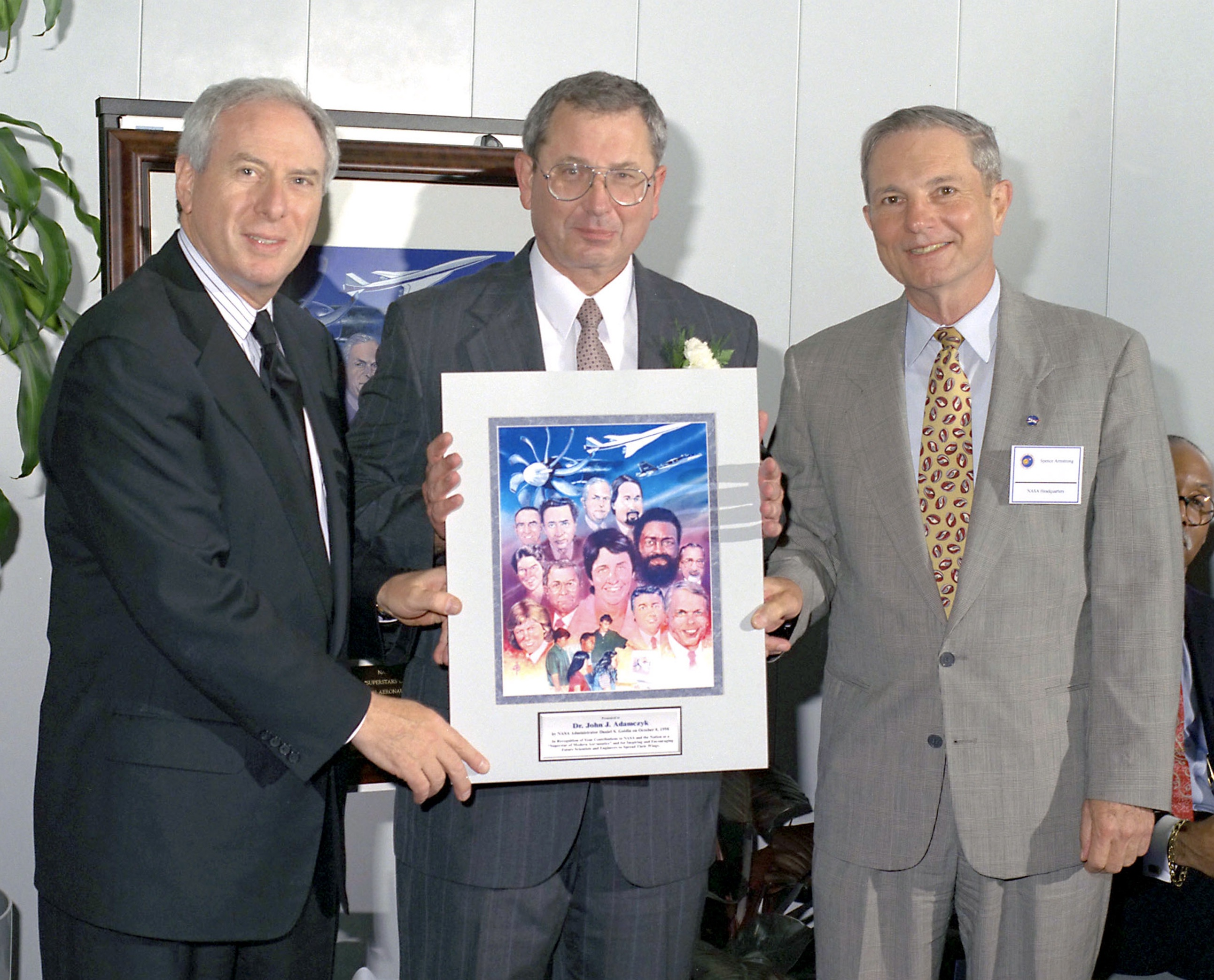 Dan Goldin, Dr. John Adamczyk, and Spence Armstrong at NASA's "Turning Goals Into Reality" aviation conference in 1998. This photo is a cropped version of NASA's photograph identified as C-1998-2689.